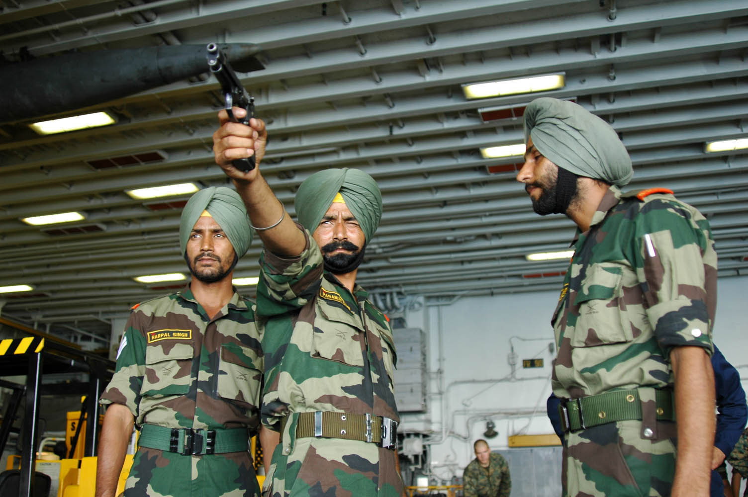 An Indian army soldier tests a hand gun during small arms training as part of Malabar 2006 aboard the amphibious assault ship USS Boxer (LHD 4) off the coast of Mumbai, India, Oct. 26, 2006. During the multinational exercise, U.S., Indian and Canadian armed forces train together to increase interoperability between the three nations and support international security cooperation missions. The Indian soldiers are assigned to the 9th Battalion, Sikh Infantry.